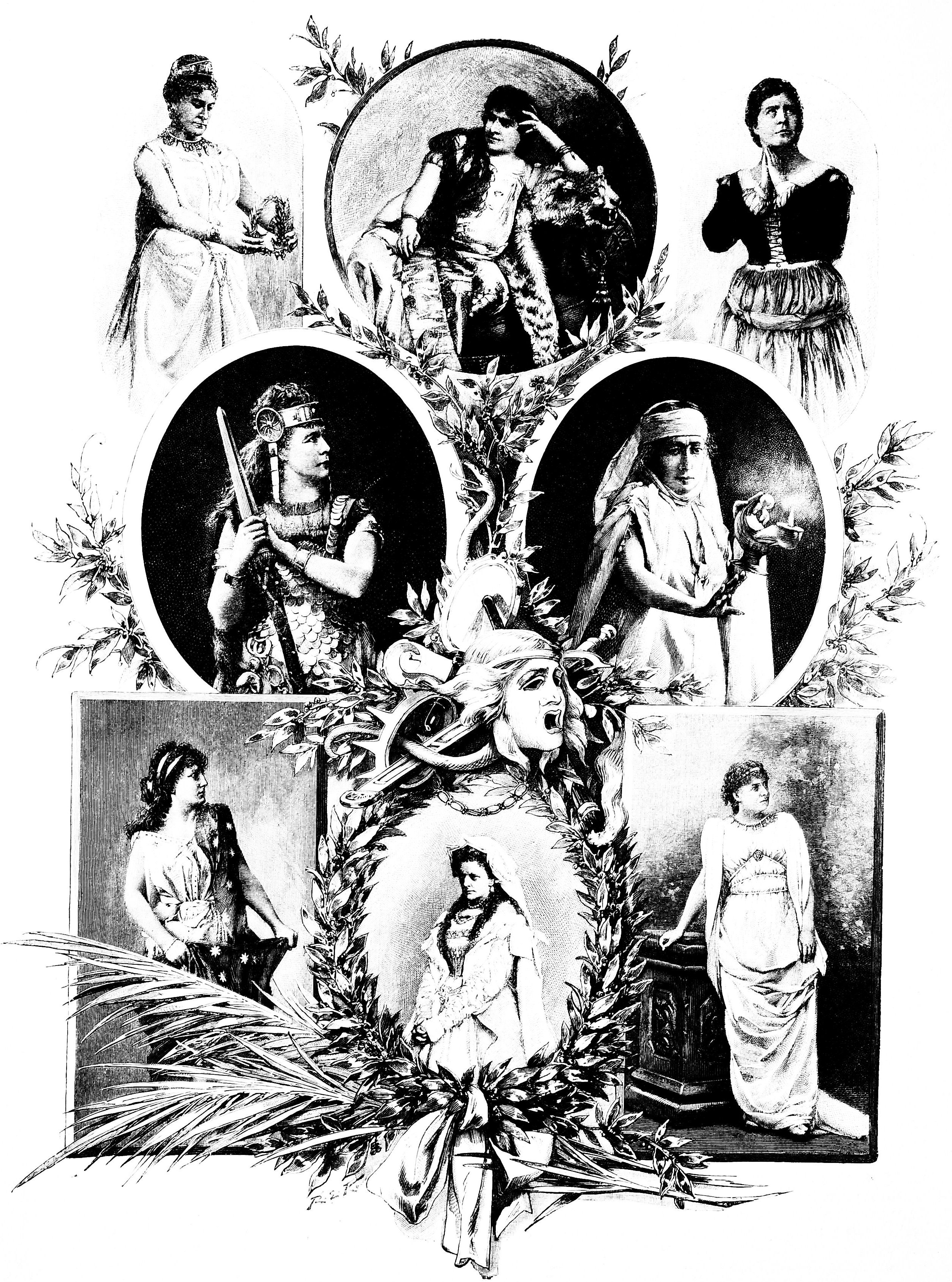 no caption